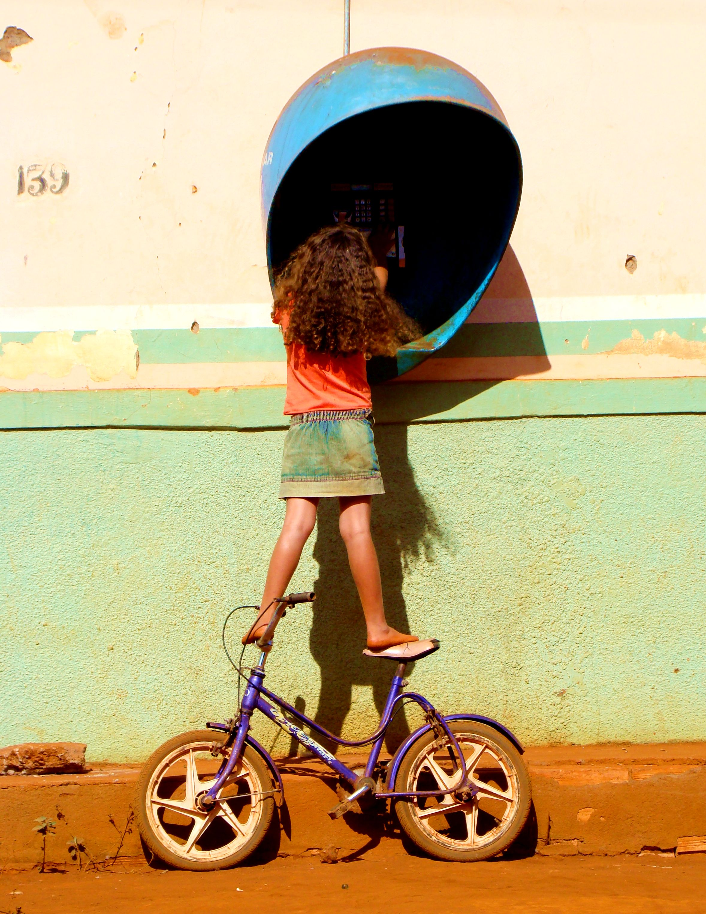 A young girl balancing herself on her bicycle and talking on a payphone in Porteirinha, Minas Gerais, Brazil.